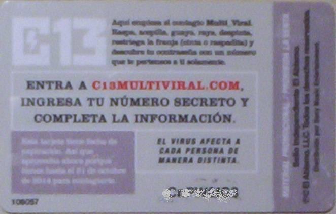 Plastic card to download Multi Viral in MP3, received at Calle 13 concert in Madrid, 20/07/2014 20:00